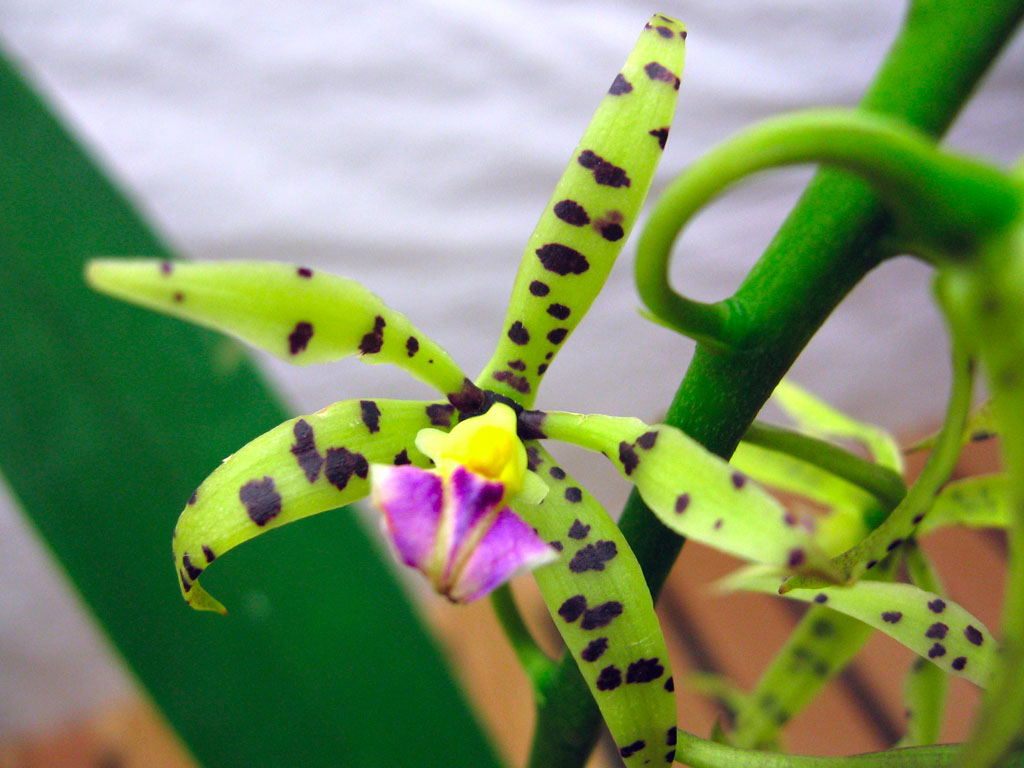 Panarica Prismatocarpa Orchid